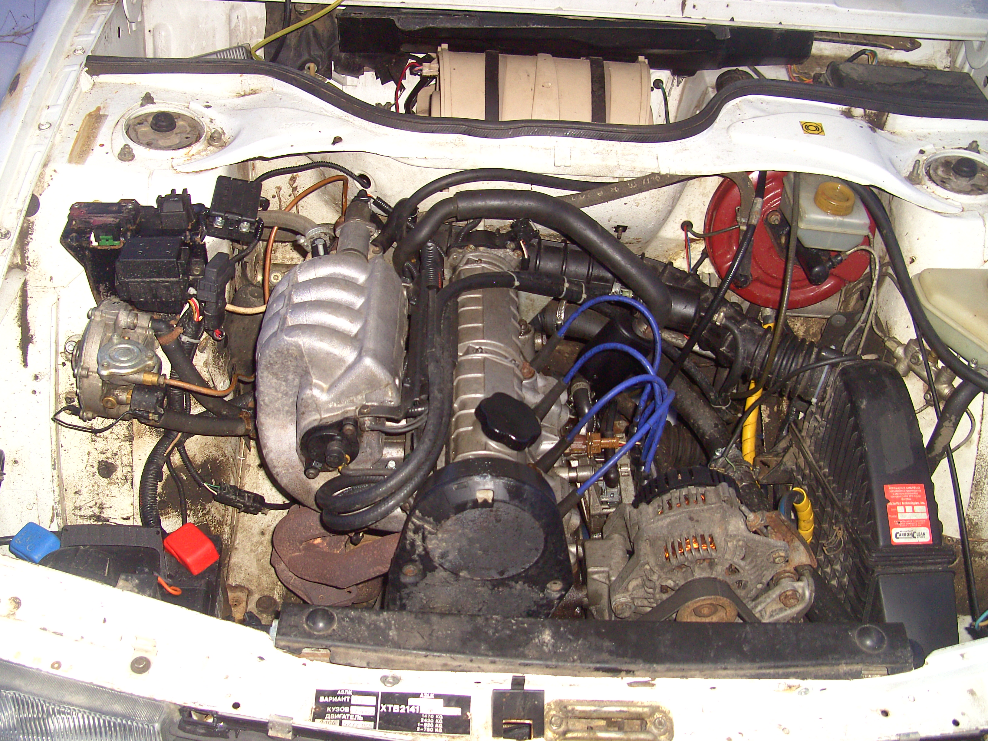 Renault F3R engine, original factory installation in a Moskvich Svyatogor (Aleko-derived)